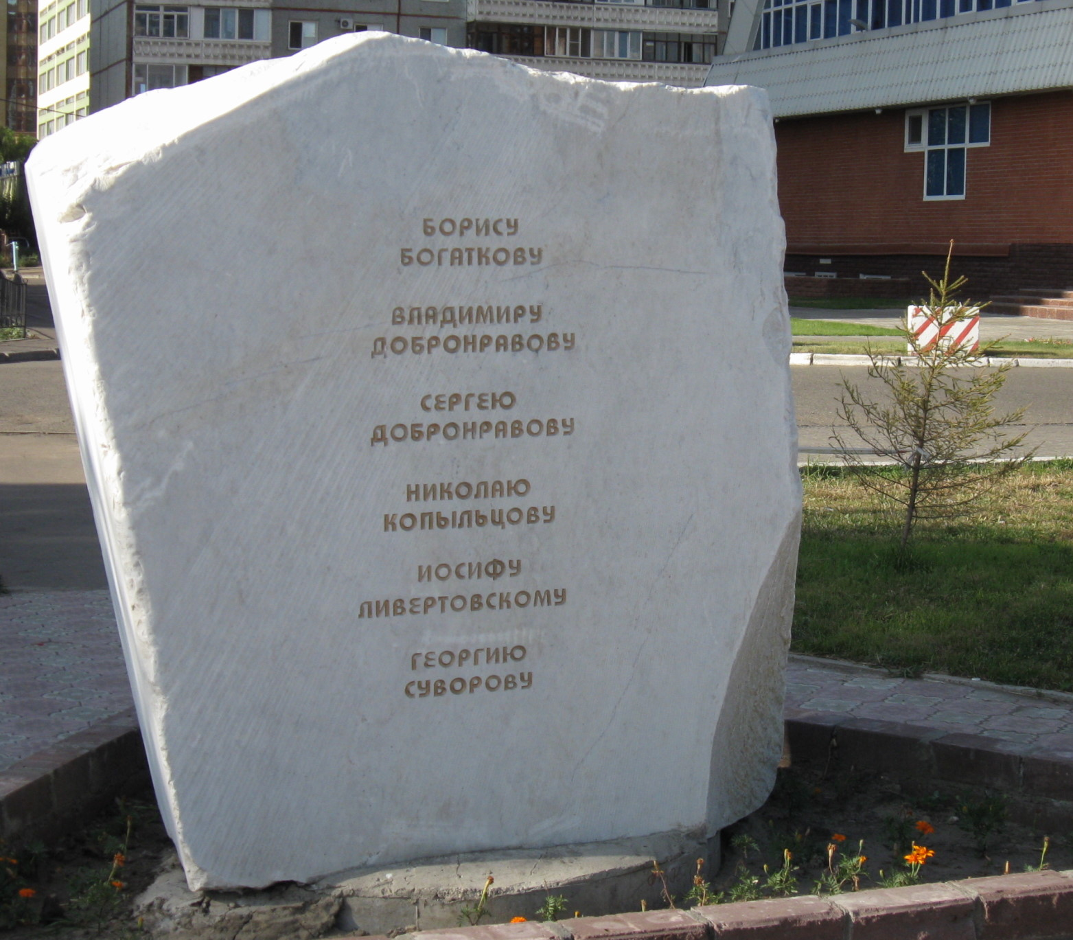 Memorial stone to Russian litterateurs, killed in the World War 2 (Omsk, Russia)